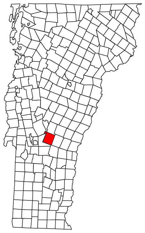 Description: Map of Vermont towns with Killington highlighted Source: Map created by Jared C. Benedict on 26 March 2004. Copyright: © Jared C. Benedict.